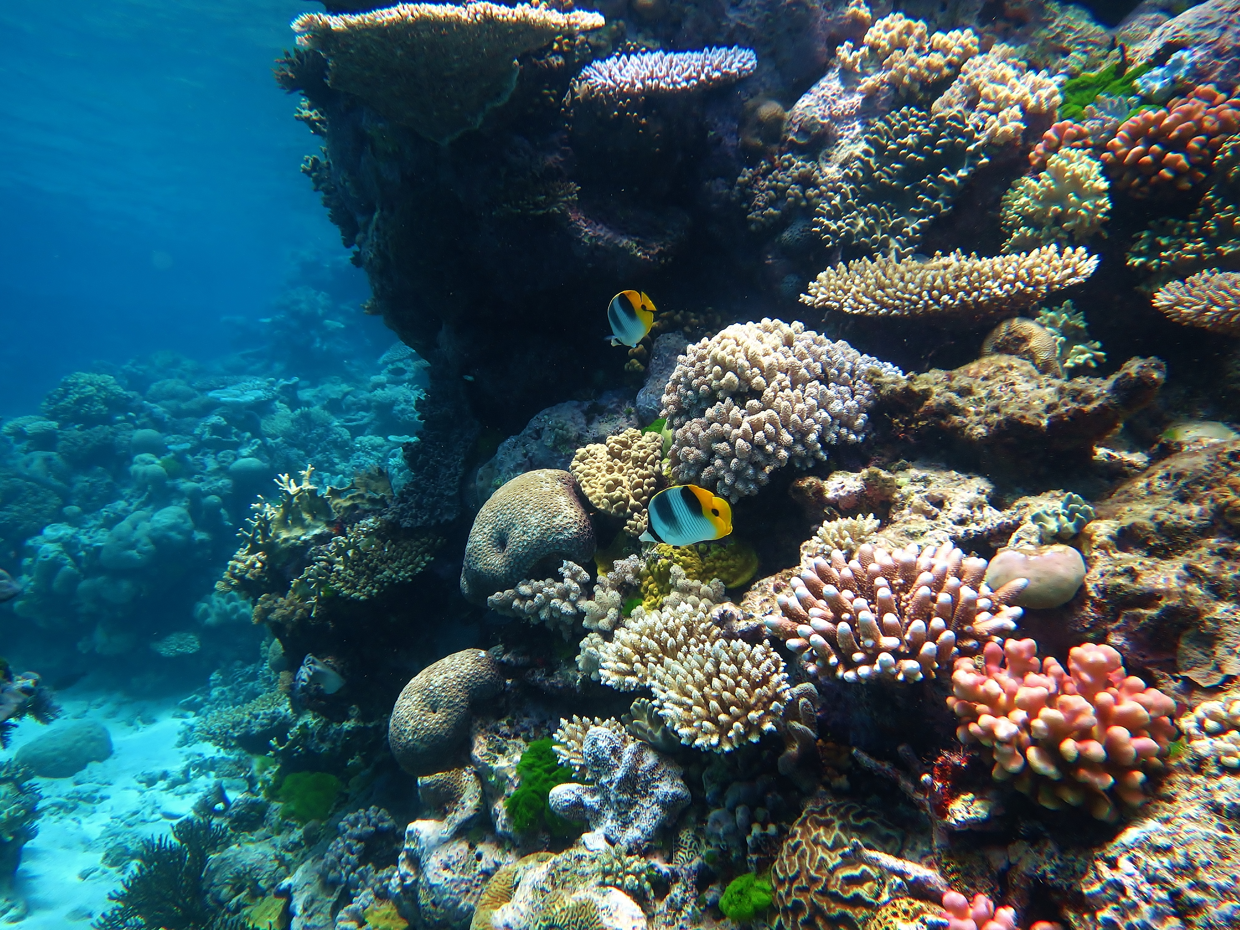 Two Pacific double-saddle butterflyfish, Chaetodon ulietensis amongst a backdrop of corals at Flynn Reef, Tennis Courts dive site. Part of the Great Barrier Reef Marine Park.